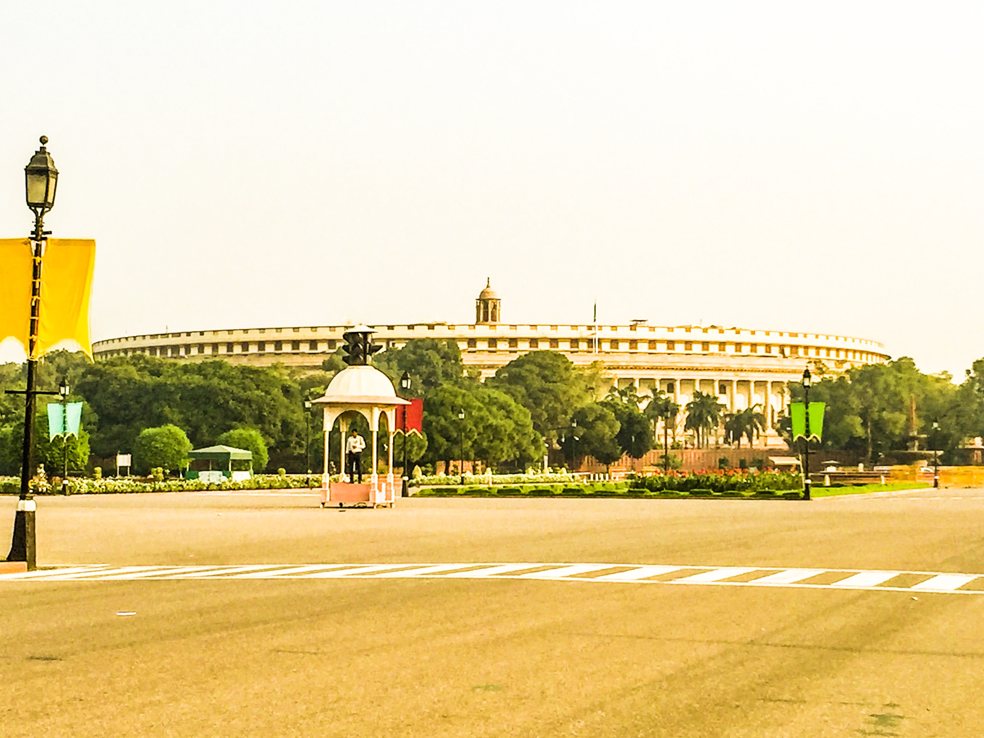 Indian Parliament from the Rashtrapathi Bahavan Junction